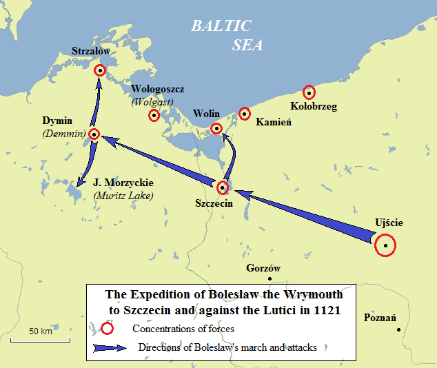 Map of Boleslaw Wrymouth's expedition to western Pomerania in 1121. Source: Slowianie Zachodni. Monarchie Wczesnofeudalne by Andrzej Michalek